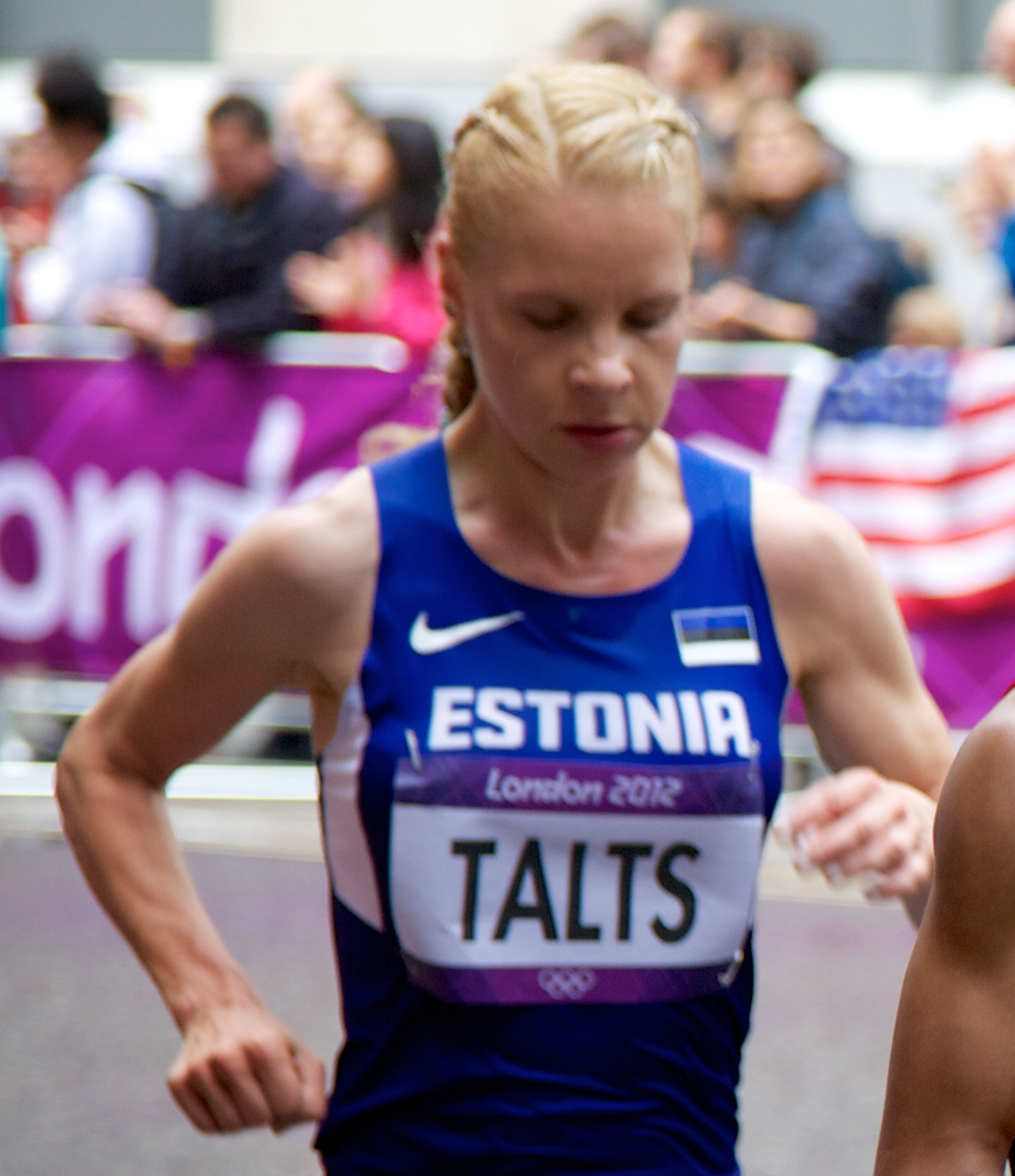 Women's Marathon, Evelin Talts (Estonia), Ni Lar San (Myanmar)